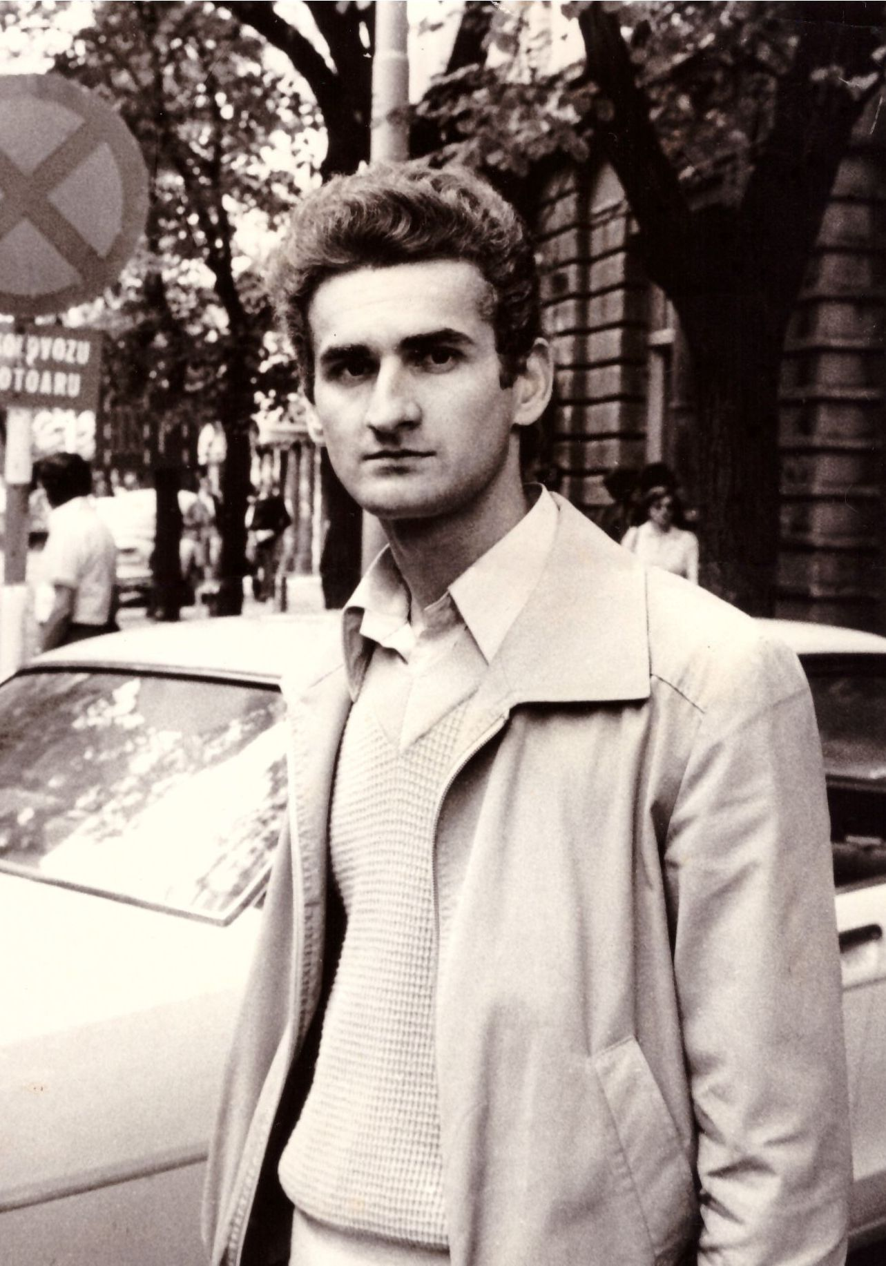 Milutin Dostanić in 1980